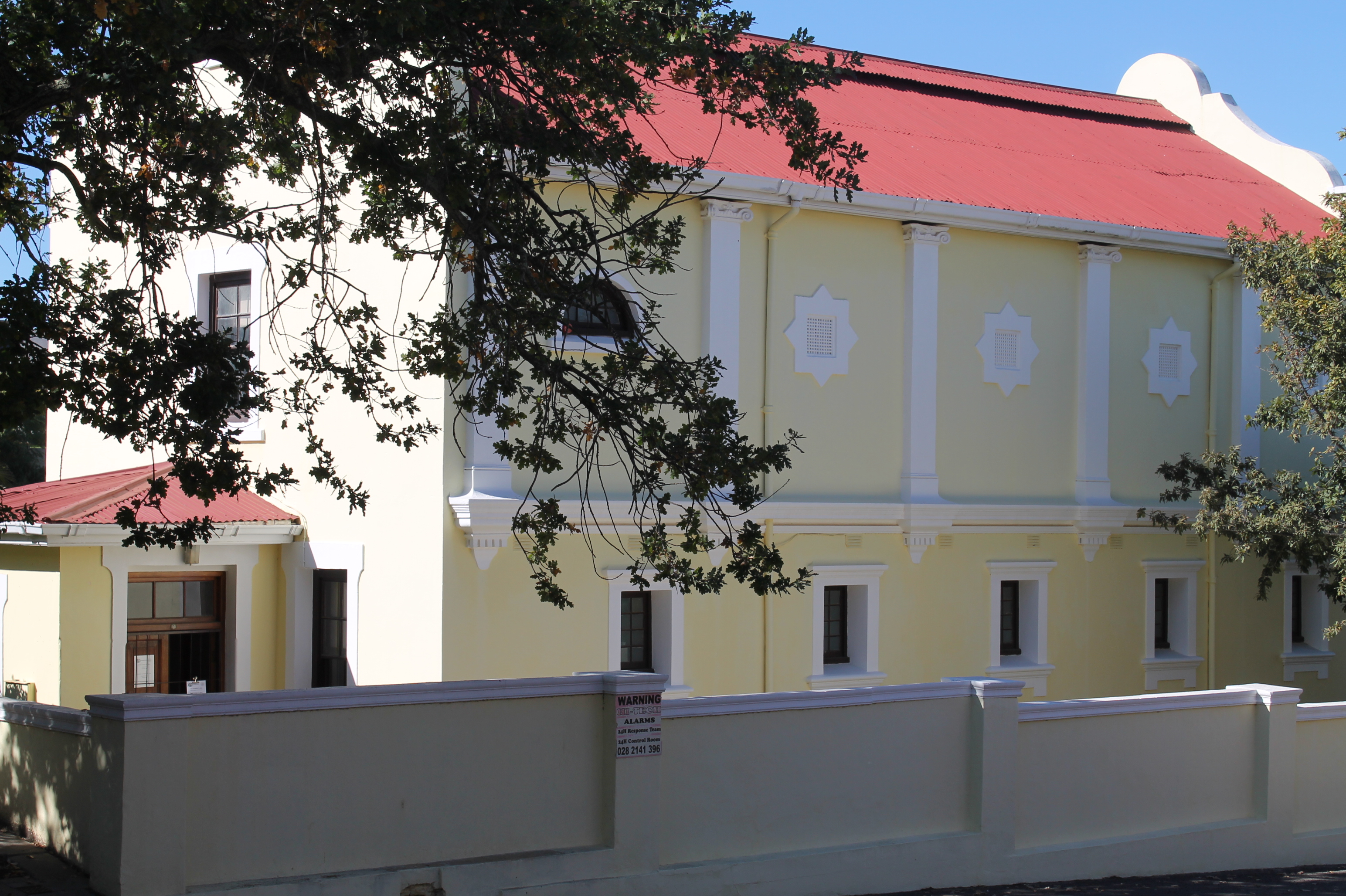 The Old Masonic Lodge, part of the Caledon Museum. 16 Constitution Street, Caledon, Western Cape, South Africa.